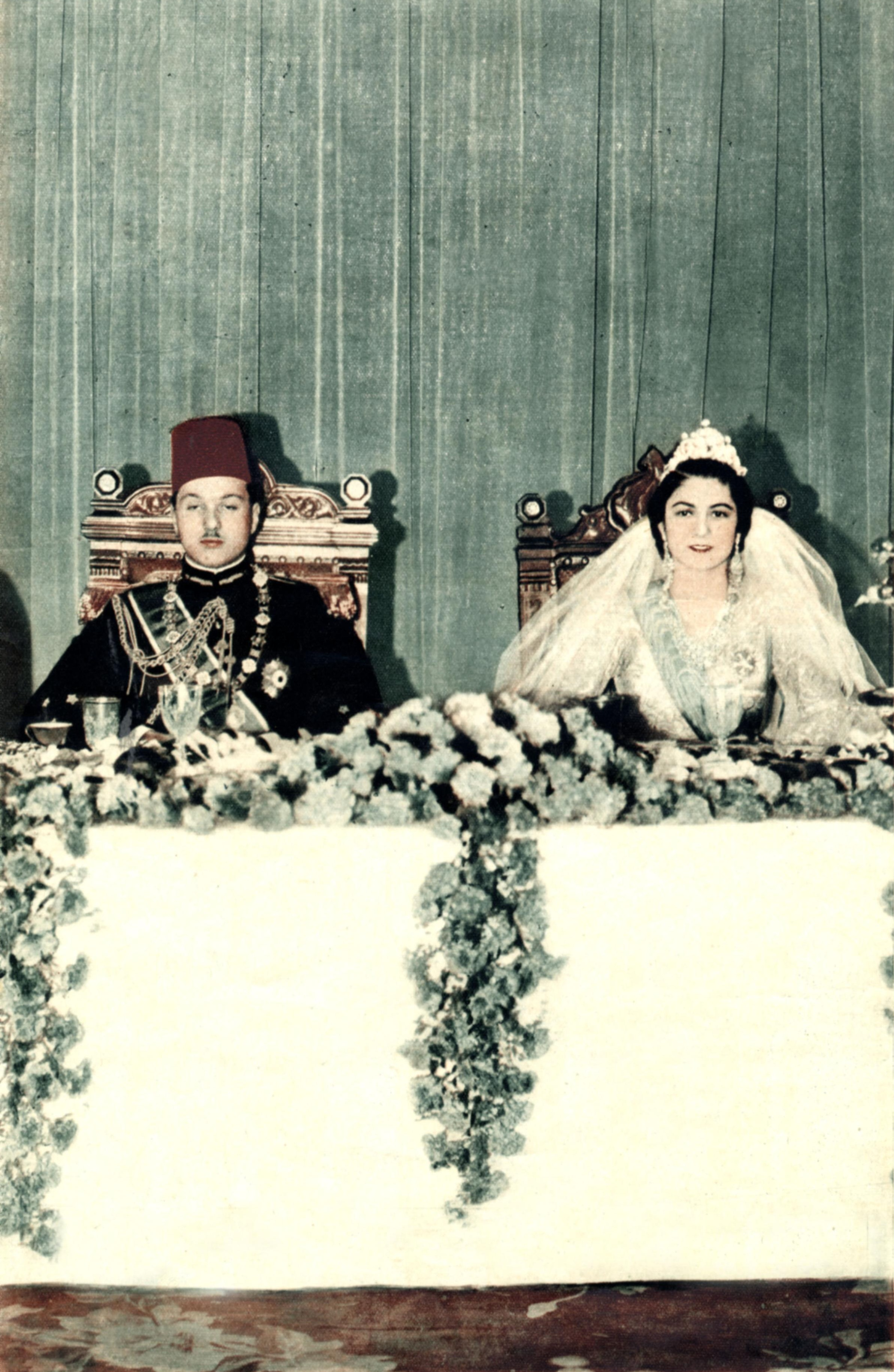 King Farouk I and Queen Farida of Egypt seated at the royal table during their wedding ceremony, which took place on 20 January 1938. The photograph was published in Al-Musawwar magazine on 11 February 1939.